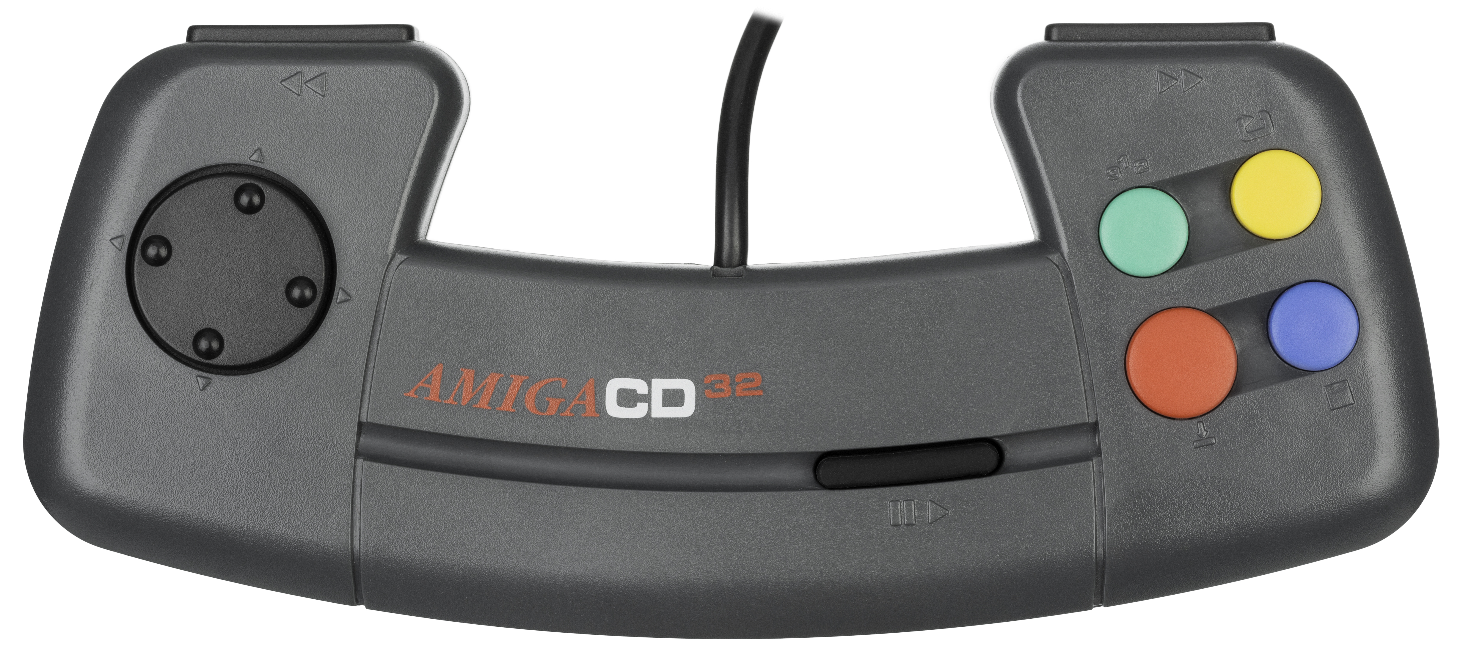 The controller for the Amiga CD32, a 32-bit, CD-ROM based video game console from Commodore. Released in 1993 in Canada, Europe, Australia and Brazil, it turned the Amiga computer line into a dedicated gaming console. It failed in the market, mostly due to the collapse of Commodore soon after its release. Even without that, it's likely it would have failed based on similar consoles and Commodore's then-weak market presence.